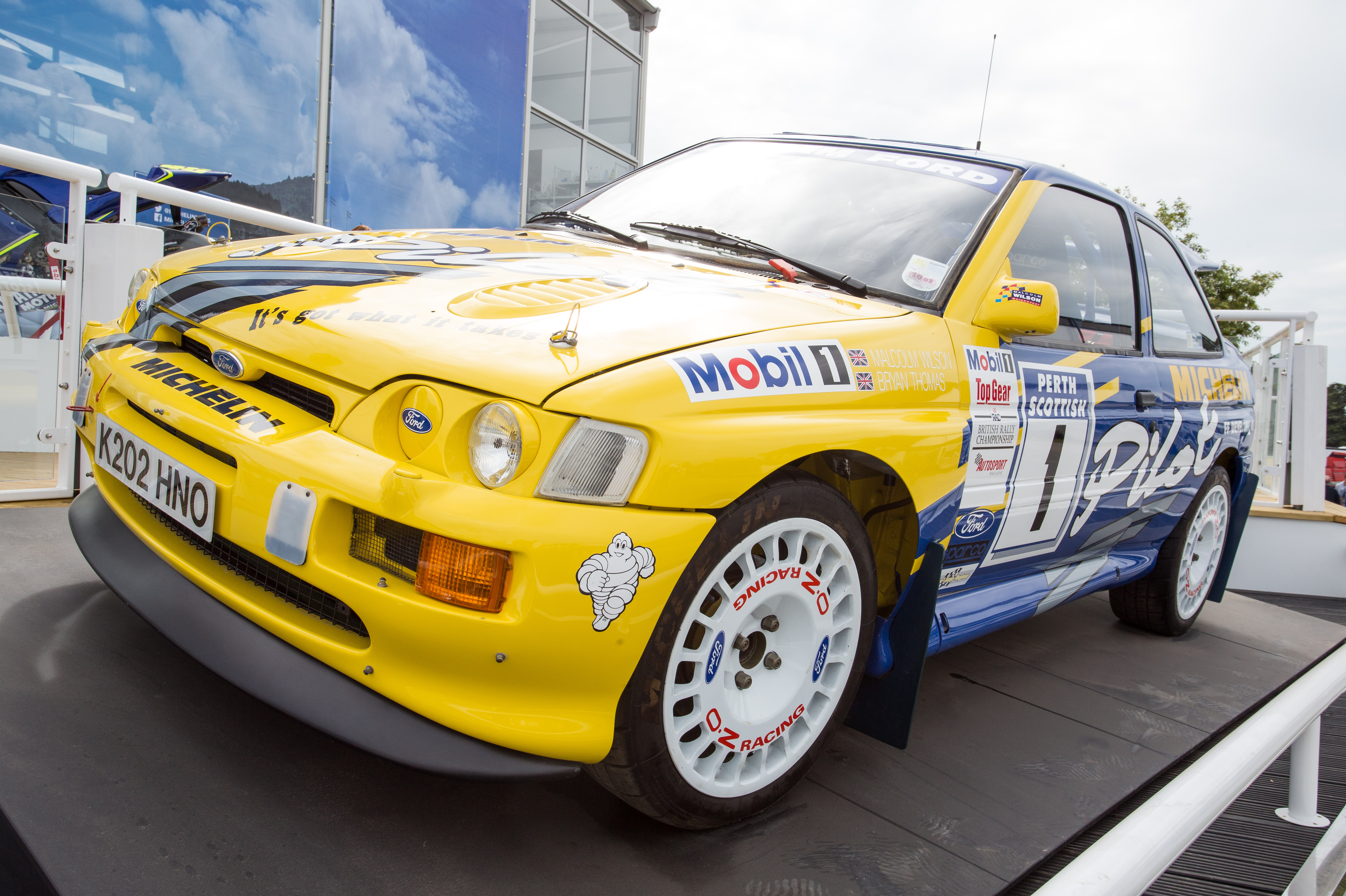 Former Ford Escort RS Cosworth of Malcolm Wilson at the 2014 Goodwood Festival of Speed.